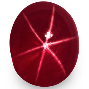 Star ruby cabochon.